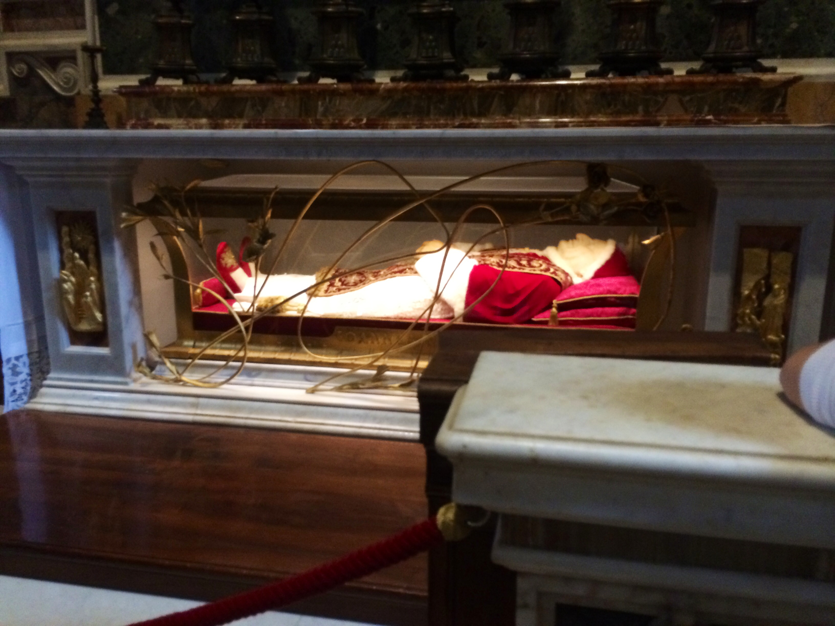 Tomb of Ioannes XXIII in Saint Peter's Basilica